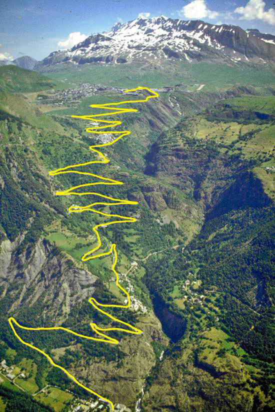 View of the L'alpe d'Huez serpentines.